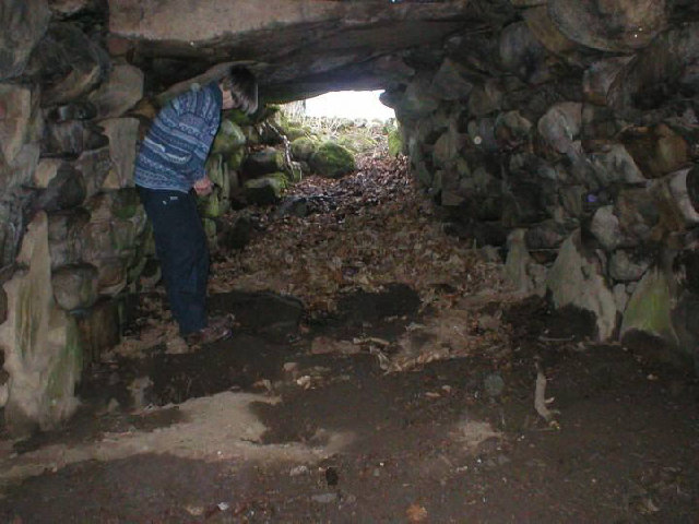 Souterrain in the grounds of Glenkindie House. There are several souterrains of similar size and design in this area of Strathdon: this one has a sizeable side-chamber off the main passage